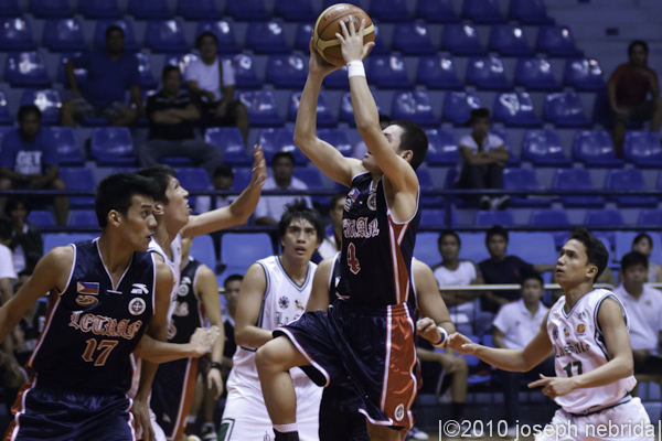 2010 Philippine Collegiate Championship: De La Salle Green Archers vs. Letran Knights